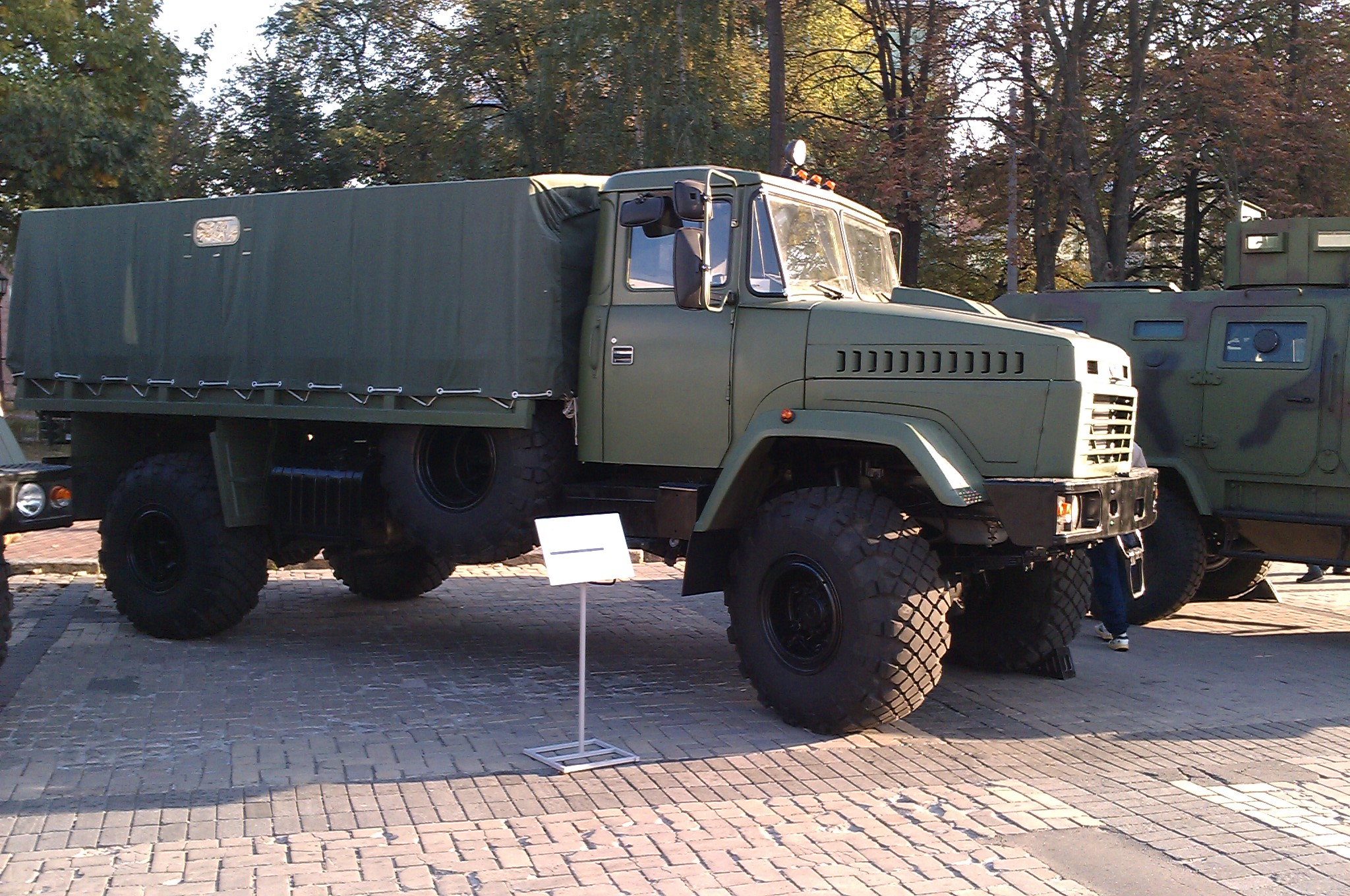 KrAZ-5233VE at the exhibition «The Power of unconquered» on the Day of the defender of Ukraine